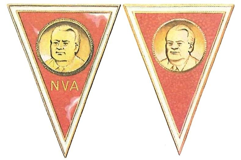 Graduates badge for individuals, received education at the “Military political high school Wilhelm Pieck” of the GDR, two different versions.